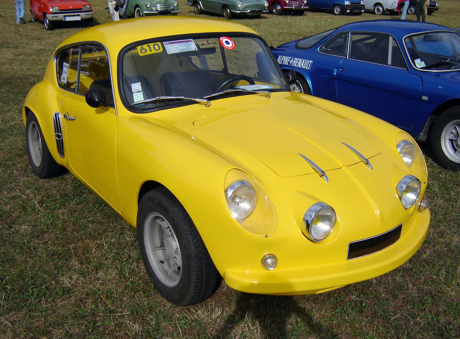 1958 Alpine A106 at the Autodrome de Linas-Montlhéry Montlhéry 2009. More modern Gordini wheels are fitted.